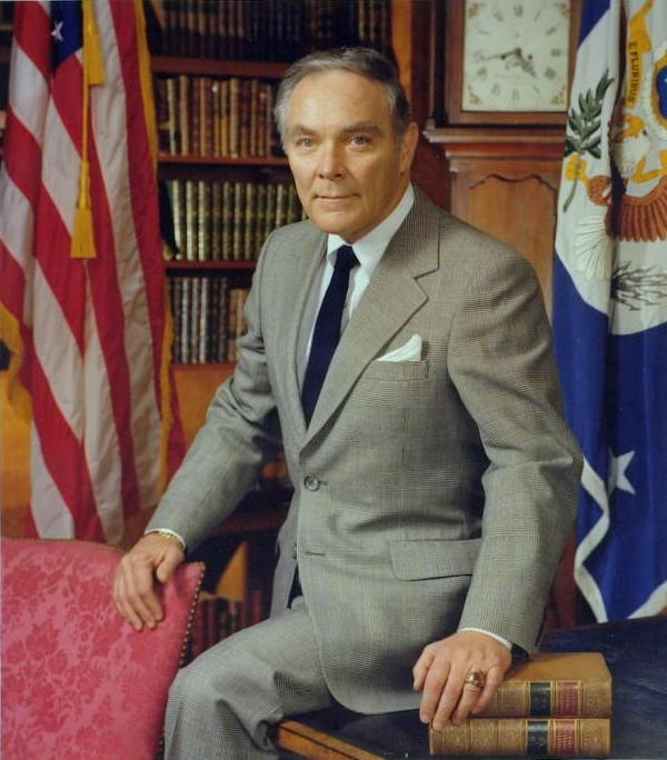 Official portrait of Alexander Haig